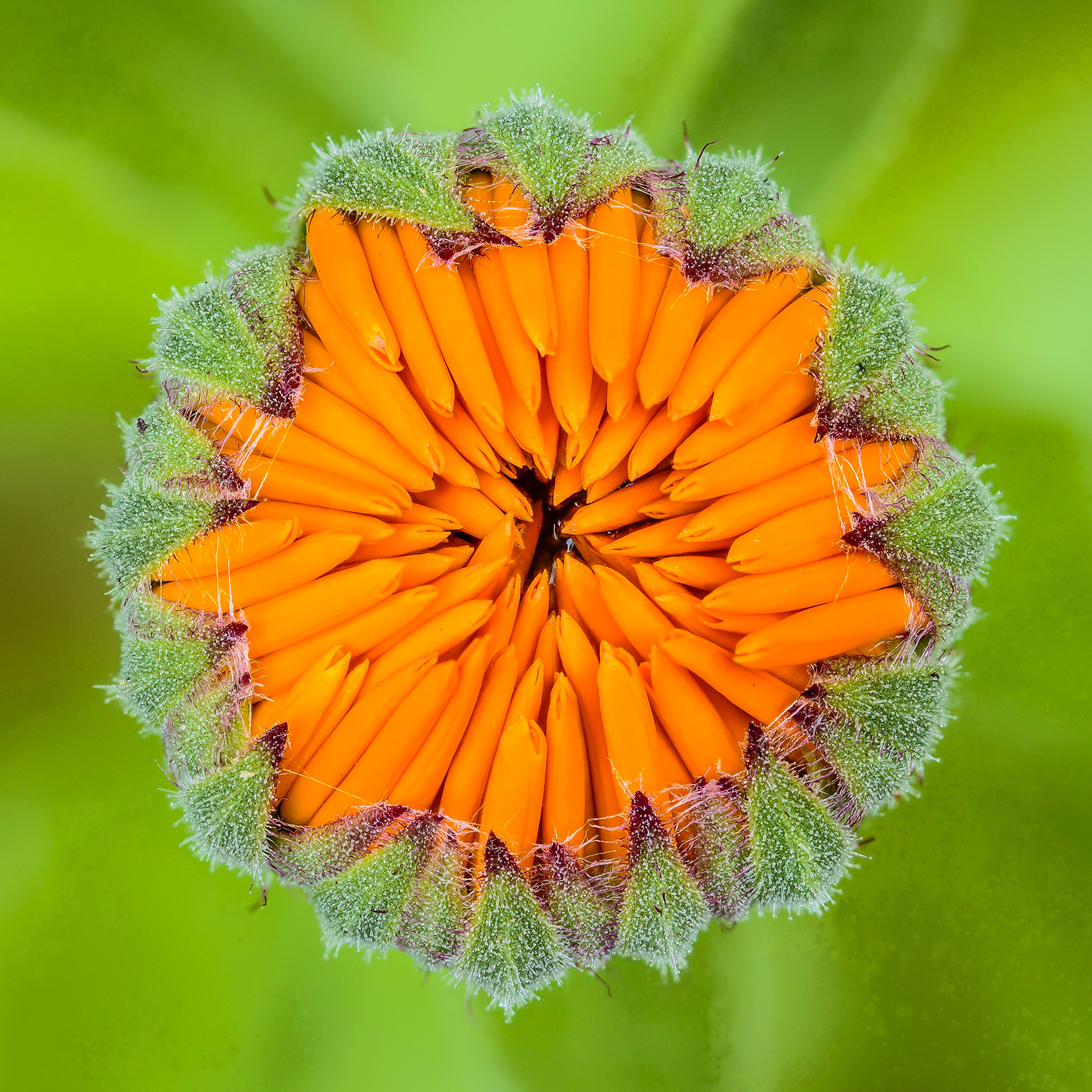 Flower bud (diameter ±16 mm (0.63 in)) of a Calendula officinalis in development. Focus stack of 13 images.